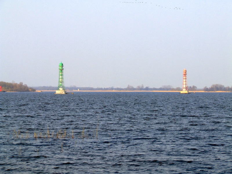 Channel Gate No. 4, Fairway Szczecin-Swinoujscie, Poland